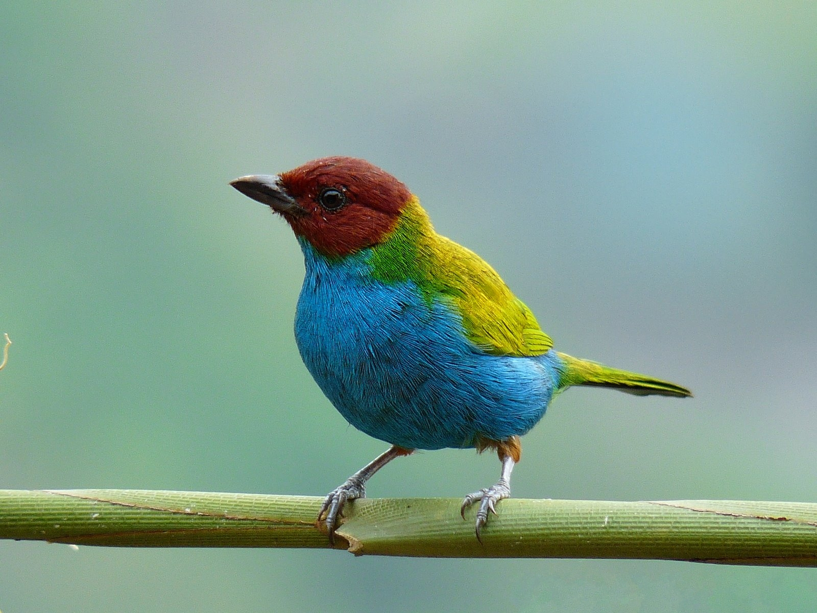 A Bay-headed Tanager in Manizales, Caldas, Colombia.